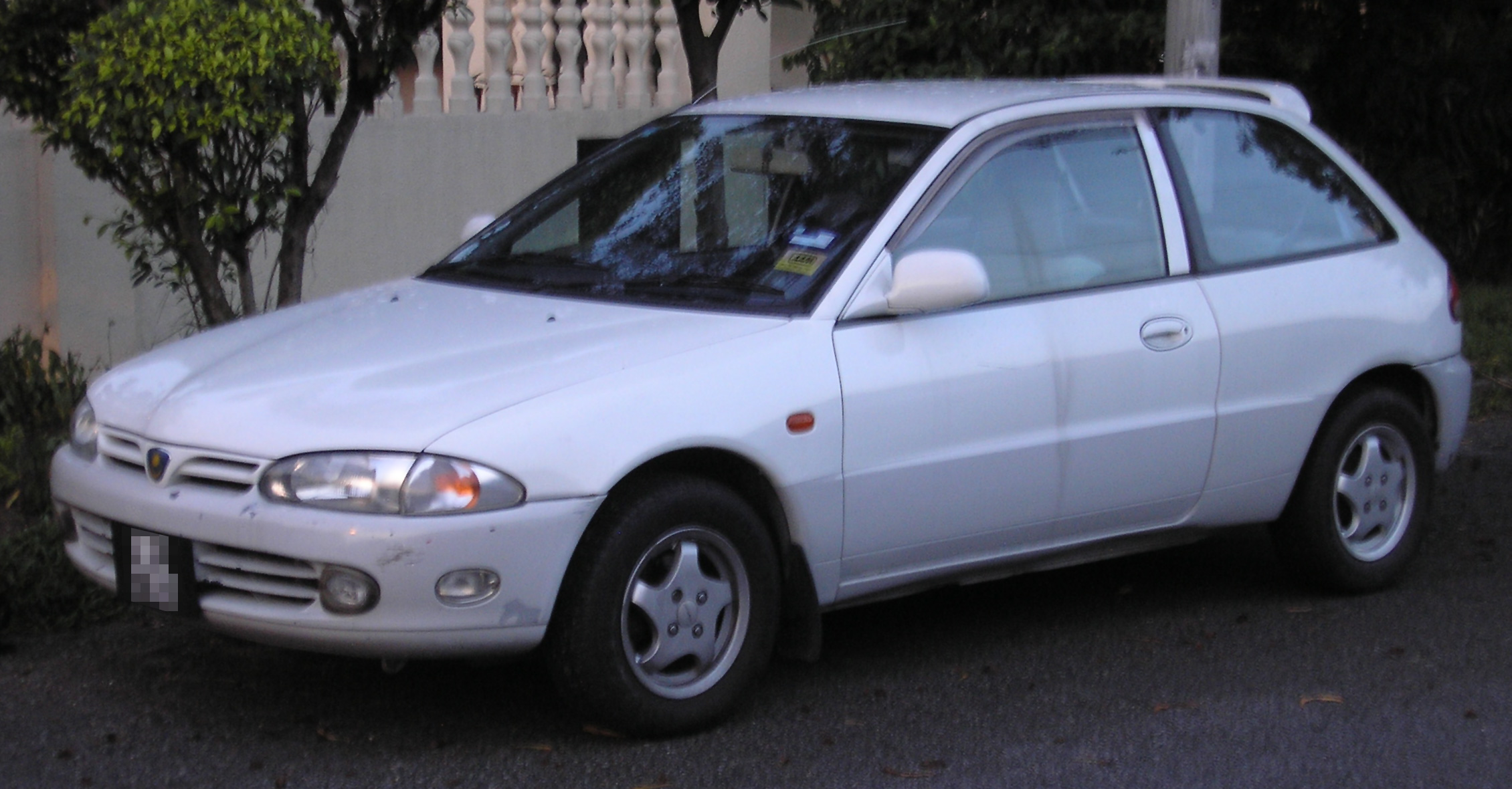 The front of a first generation Proton Satria, in Bangsar, Malaysia.